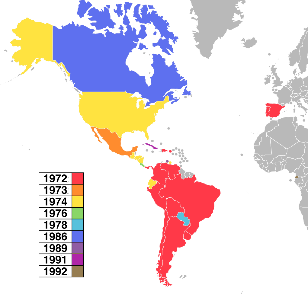 Map of the OTI Festival participating countries by debut year